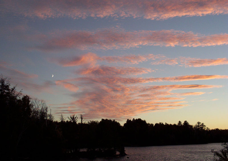 A sunset over Paudash Lake, Ontario, taken at the causeway on Ransom Point, October 8th, 2005.